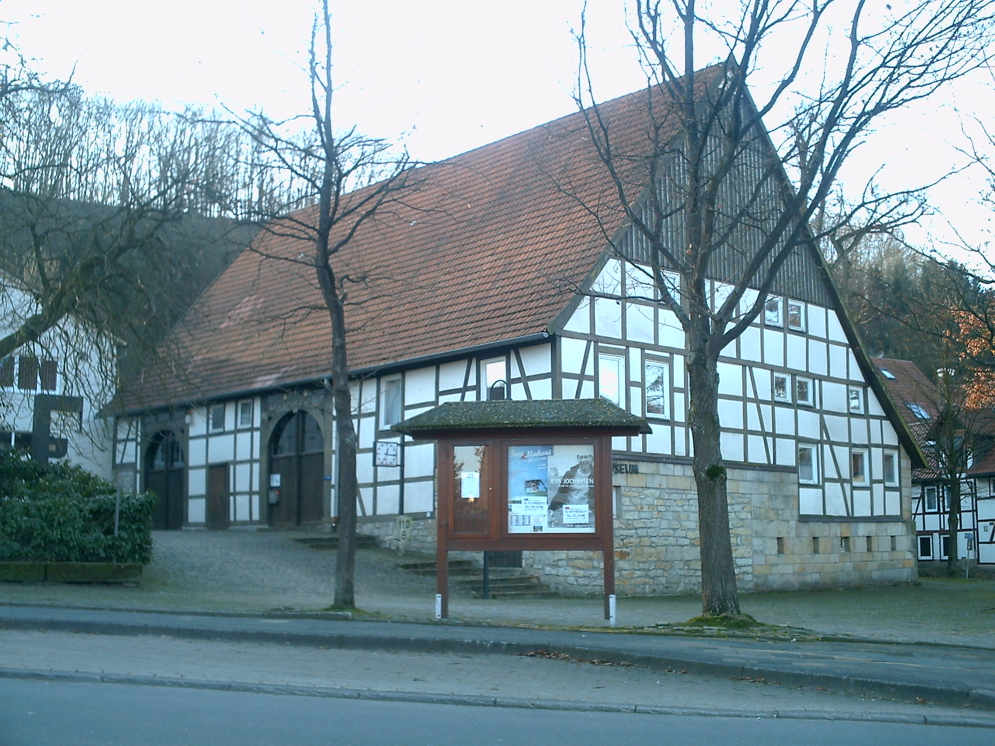 Eggemuseum in Altenbeken / Germany